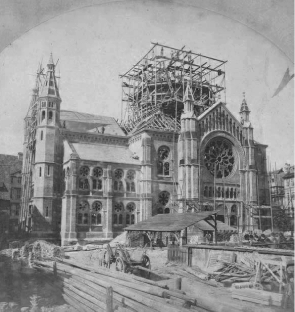 Synagogue of Hannover Under construction before 1870.